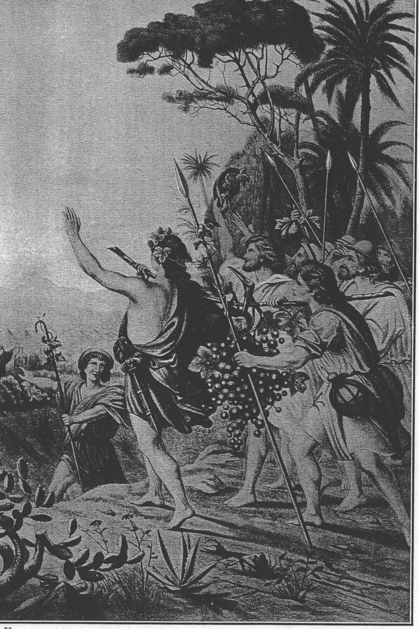 The Spies Return, by Wilhelm Ebbinghaus, from The Bible and Its Story Taught by One Thousand Picture Lessons, vol. 2. edited by Charles F. Horne and Julius A. Bewer. 1908.